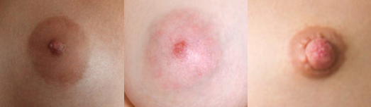 breast